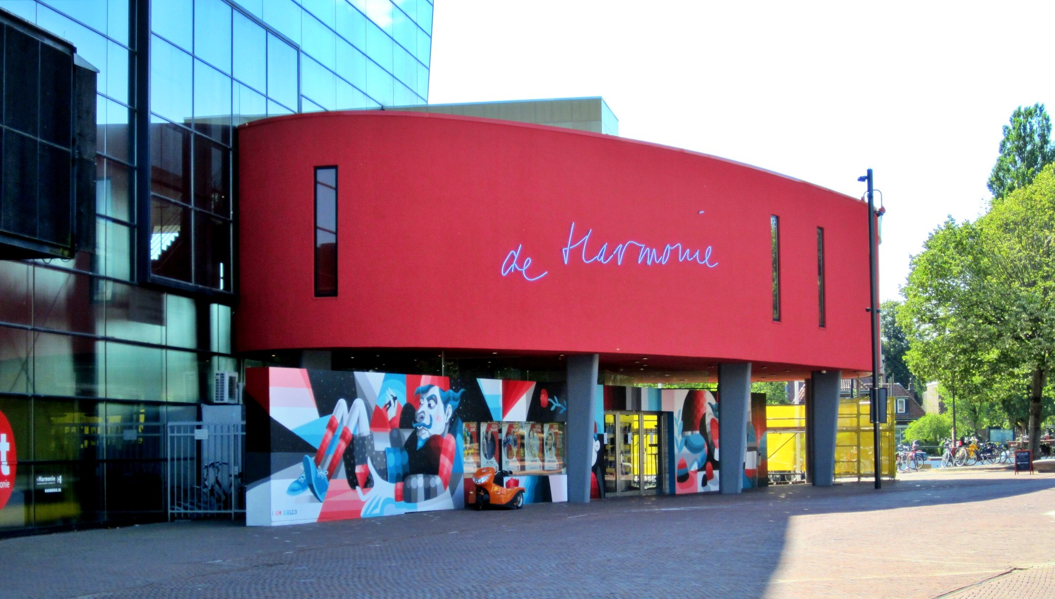 Main entrance of Stadsschouwburg De Harmonie (Frisian: Stedsskouboarch De Harmony), a theater in Leeuwarden/Ljouwert, Friesland, the Netherlands.